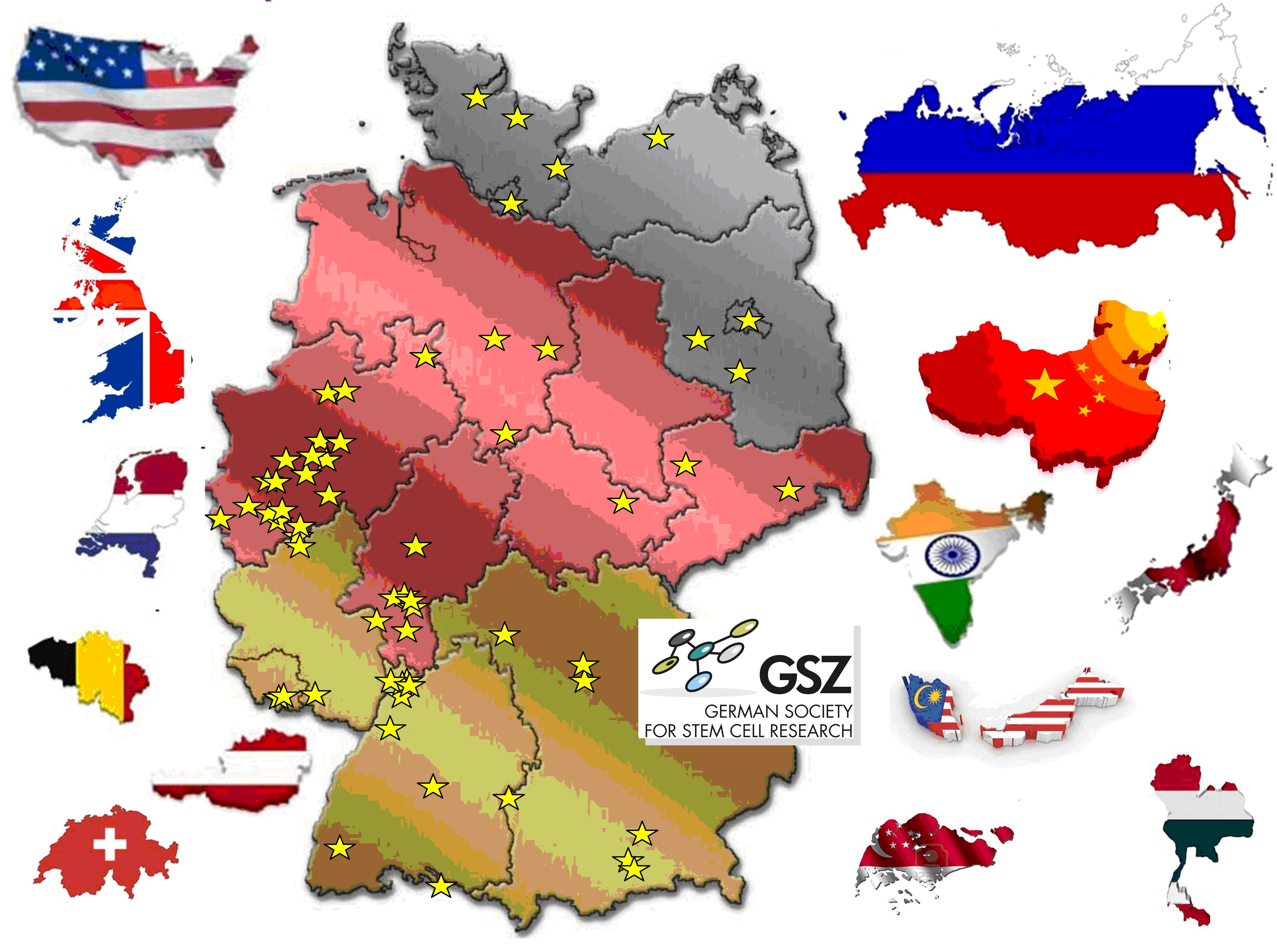 Members of GSZ